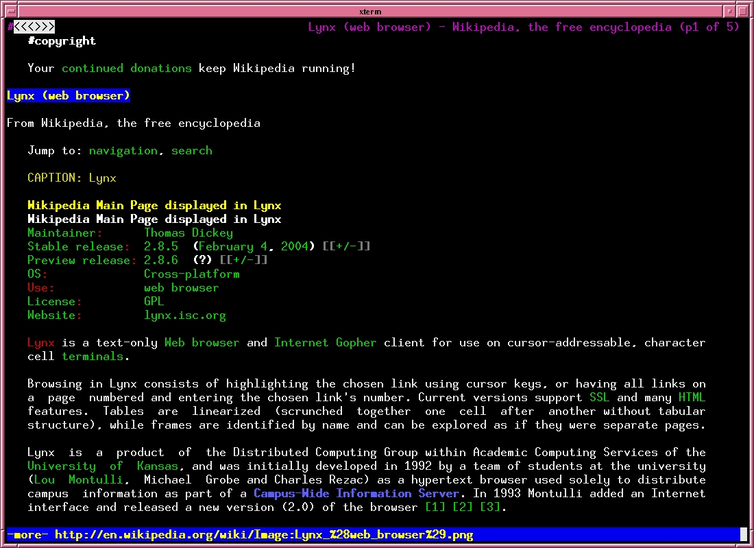 Screenshot of Lynx, a text-based, cross-platform web browser, displaying an older version of its Wikipedia article using color-style. Created by Thomas Dickey using Lynx 2.8.6dev.18